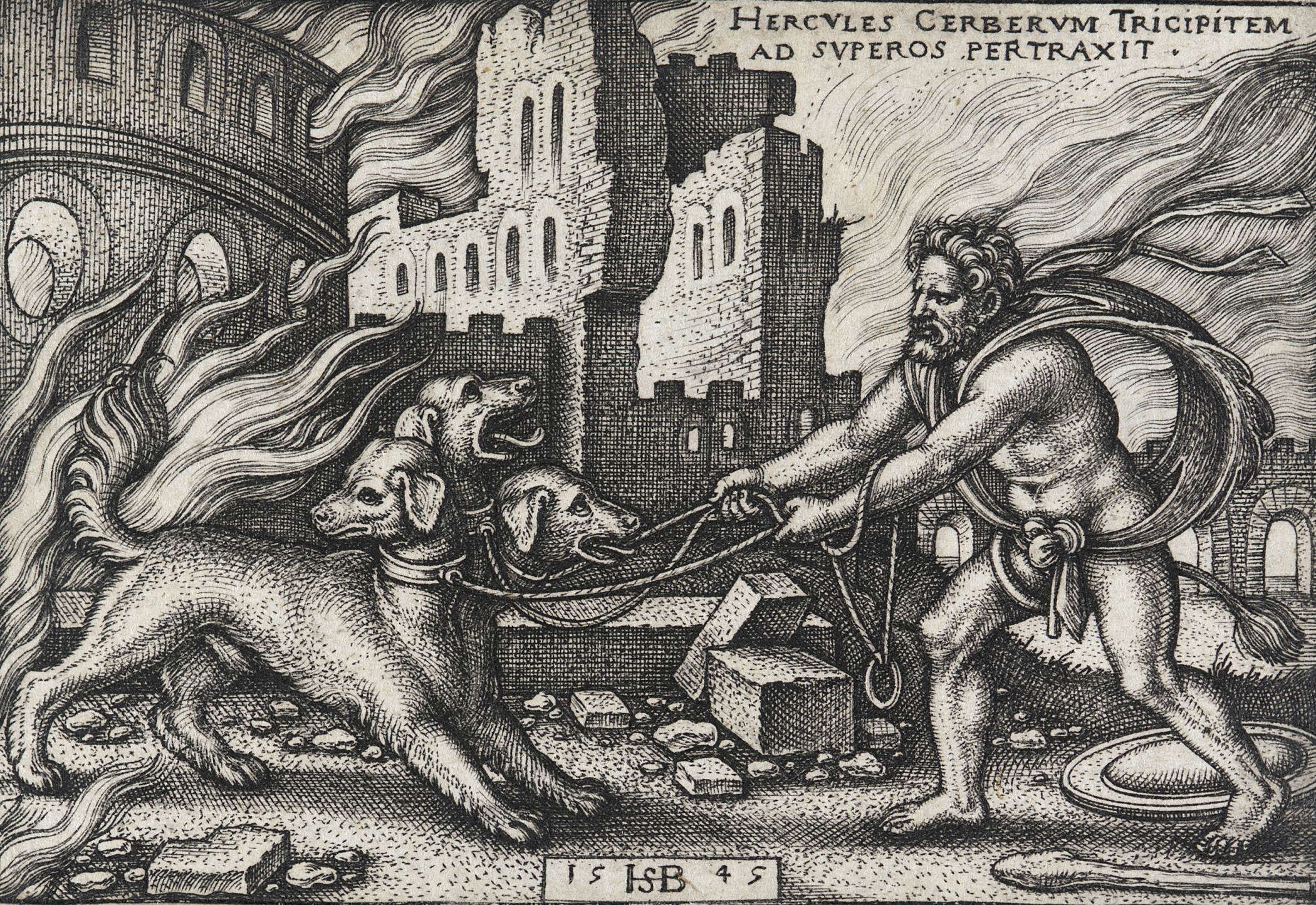 Germany, 1545 Series: The Labors of Hercules Prints; engravings Engraving Sheet: 2 1/16 x 3 1/16 in. (5.24 x 7.78 cm) Estate of Howard de Forest (47.31.158) Prints and Drawings